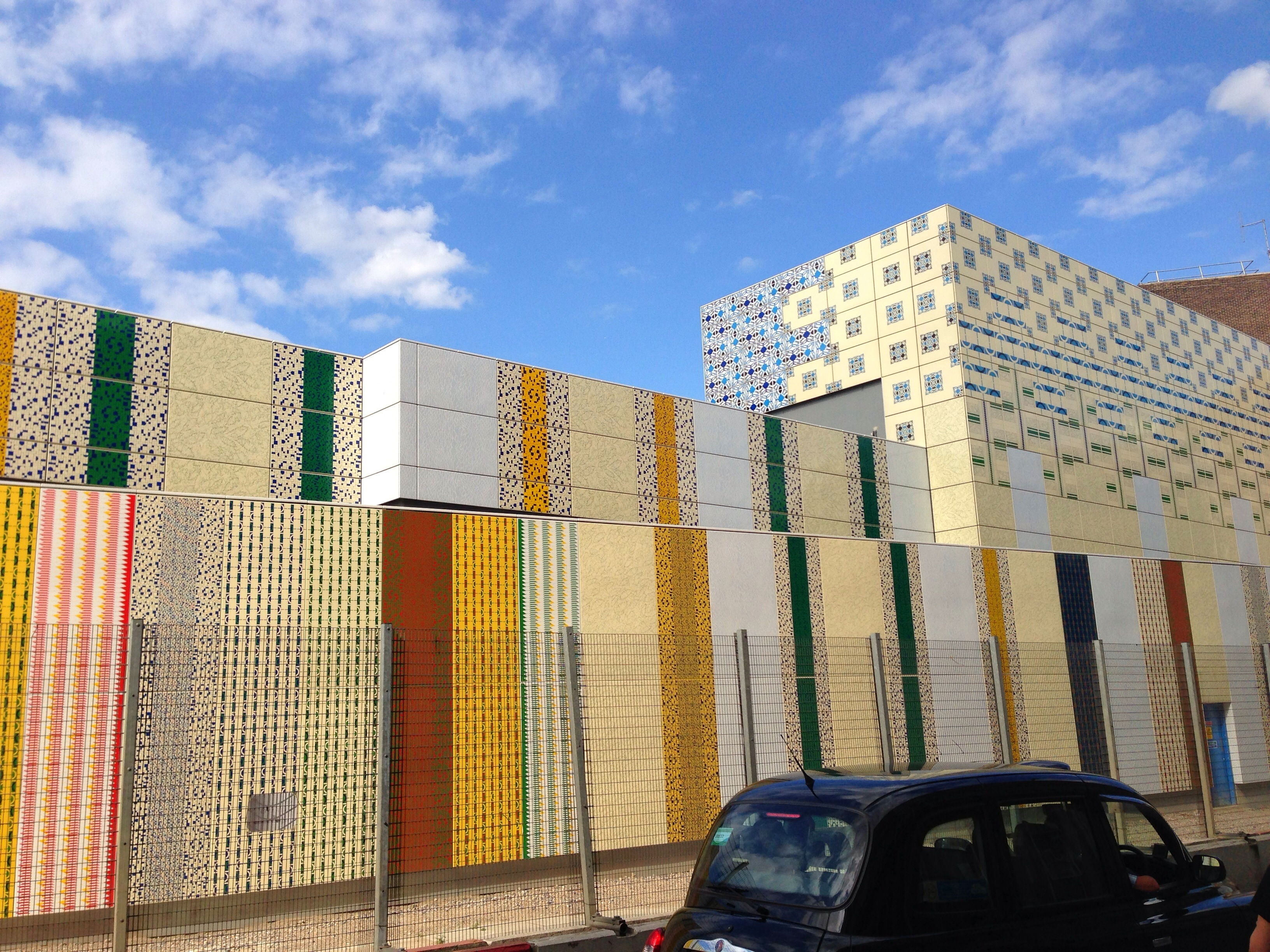 Tiles on Edgeware Road sub-station